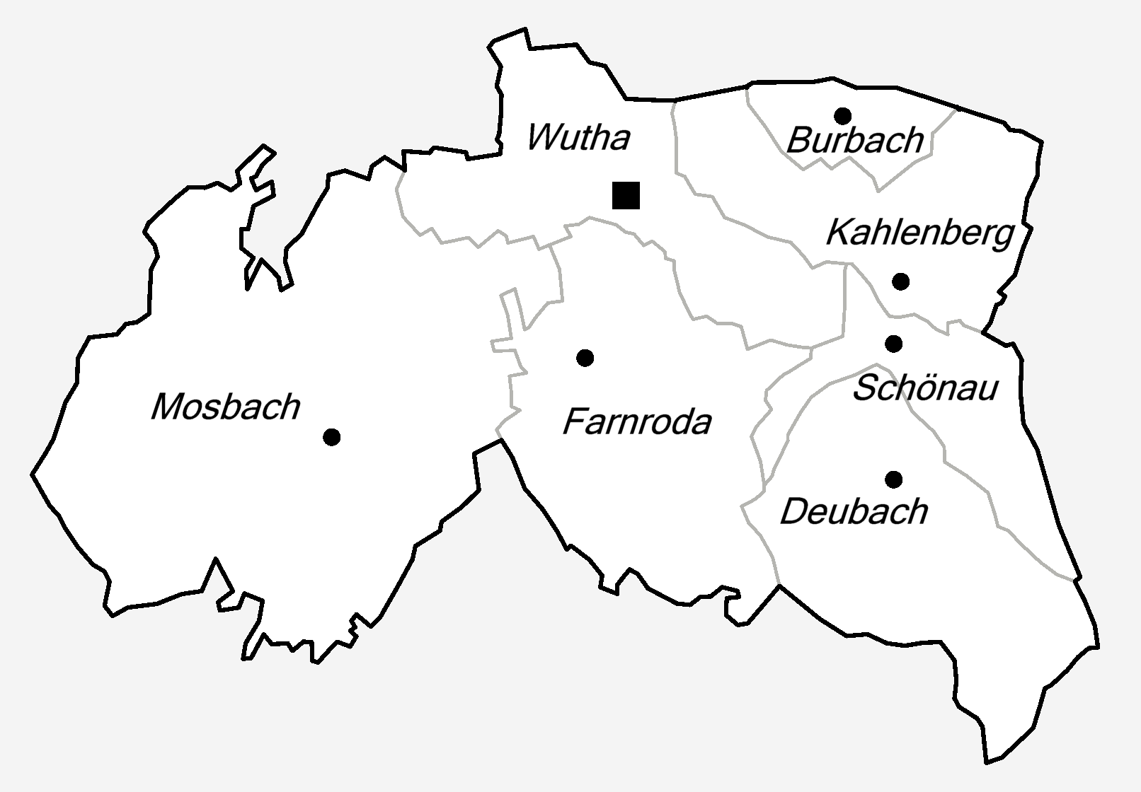 District-Maps of Wutha-Farnroda. Gemeindegliederung.